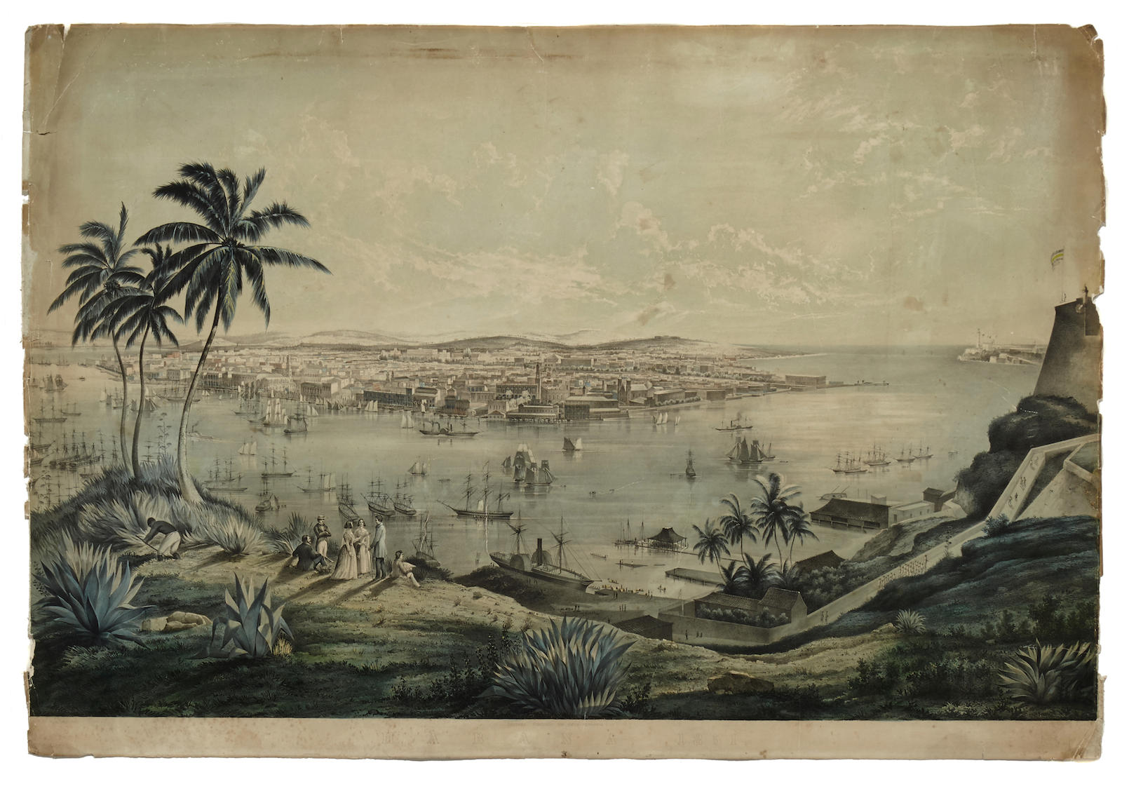 Lithograph view of Habana, Cuba